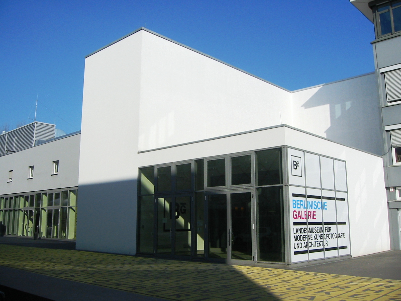 Berlin Gallery in Berlin-Kreuzberg (Germany)